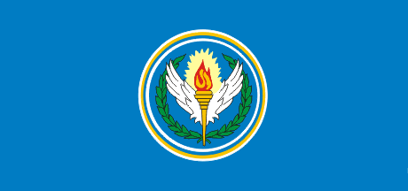 Flag of CENTO